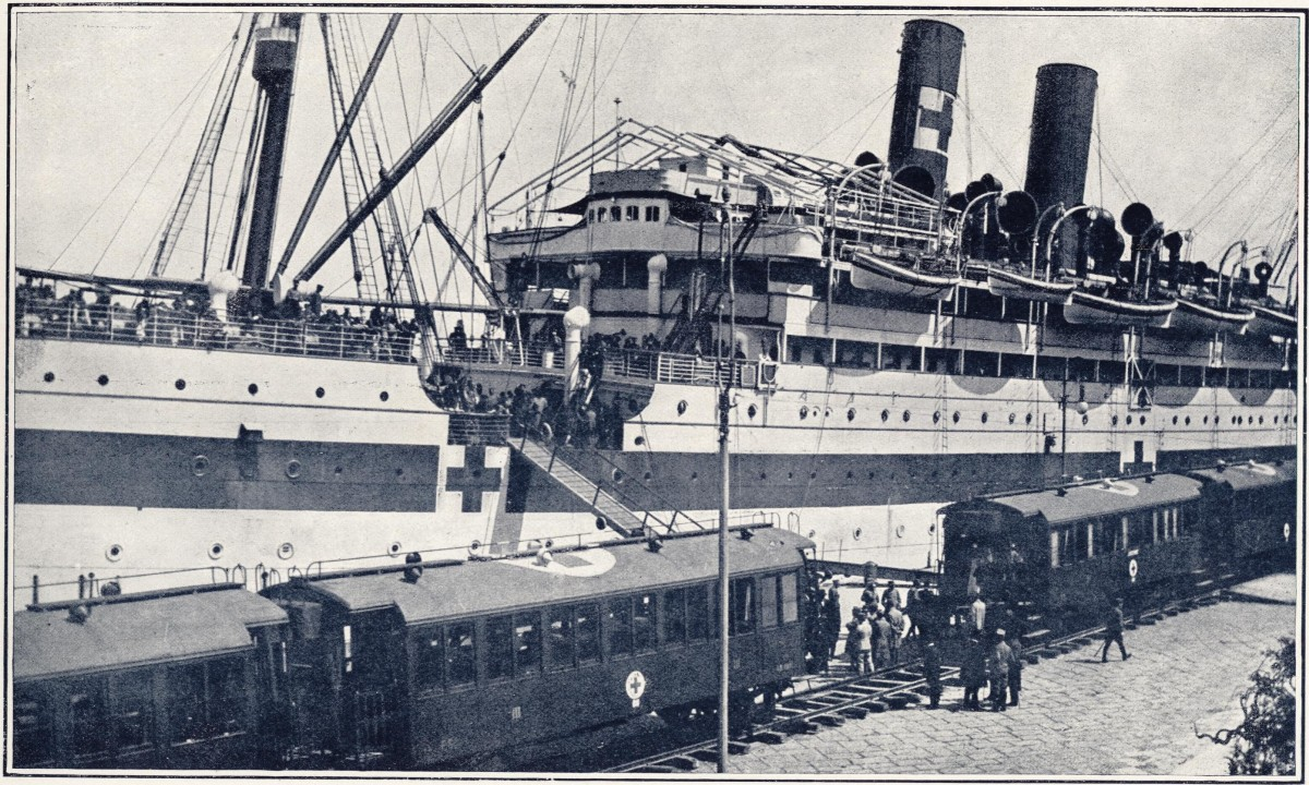 La Ferdinando Palasciano, ex nave passeggeri tedesca König Albert, allo scoppio della 1° Guerra Mondiale, venne requisita nel porto di Genova dalla Regia Marina.